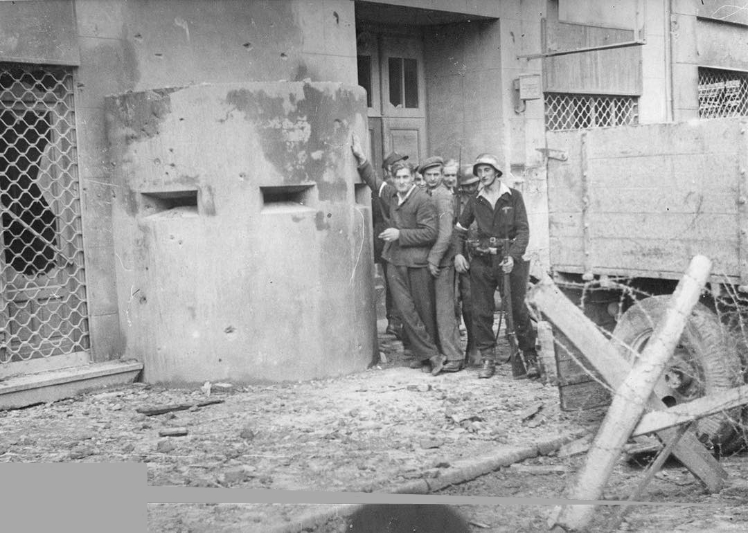 WarsawUprising: Insurgents from "Chrobry I" Battalion in front of German police station “Nordwache” at the junction of Chłodna and Żelazna Streets.